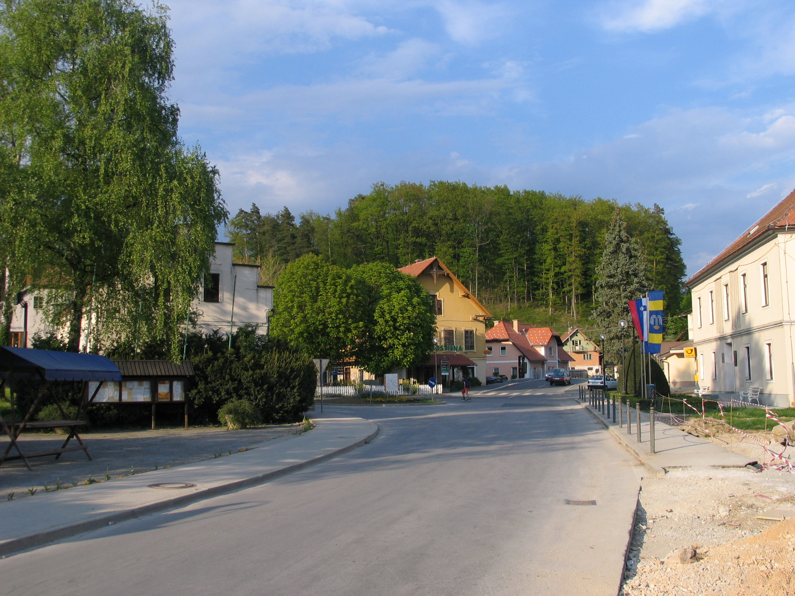 Dobrna town centre.